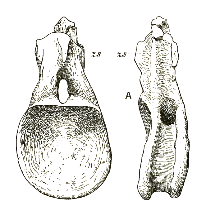 Cetiosaurus leedsi - Posterior dorsal vertebra, lacking neural spine: posterior and (A) right lateral aspects. zs. - zygosphene. About 1/8 nat. size.